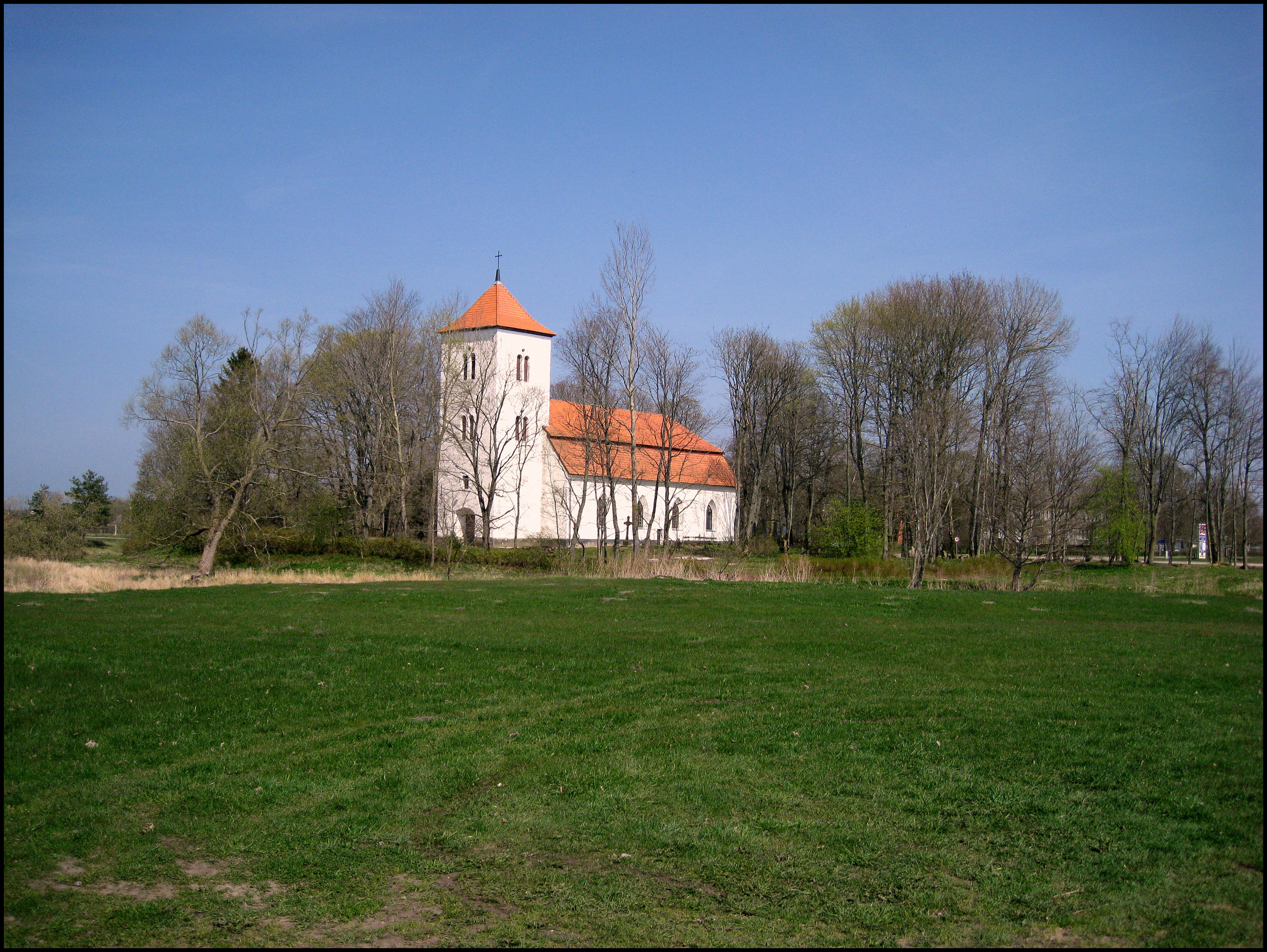 Piltene Evangelical Lutheran ChurchLatviešu: Piltenes evaņģēliski luteriskā baznīca